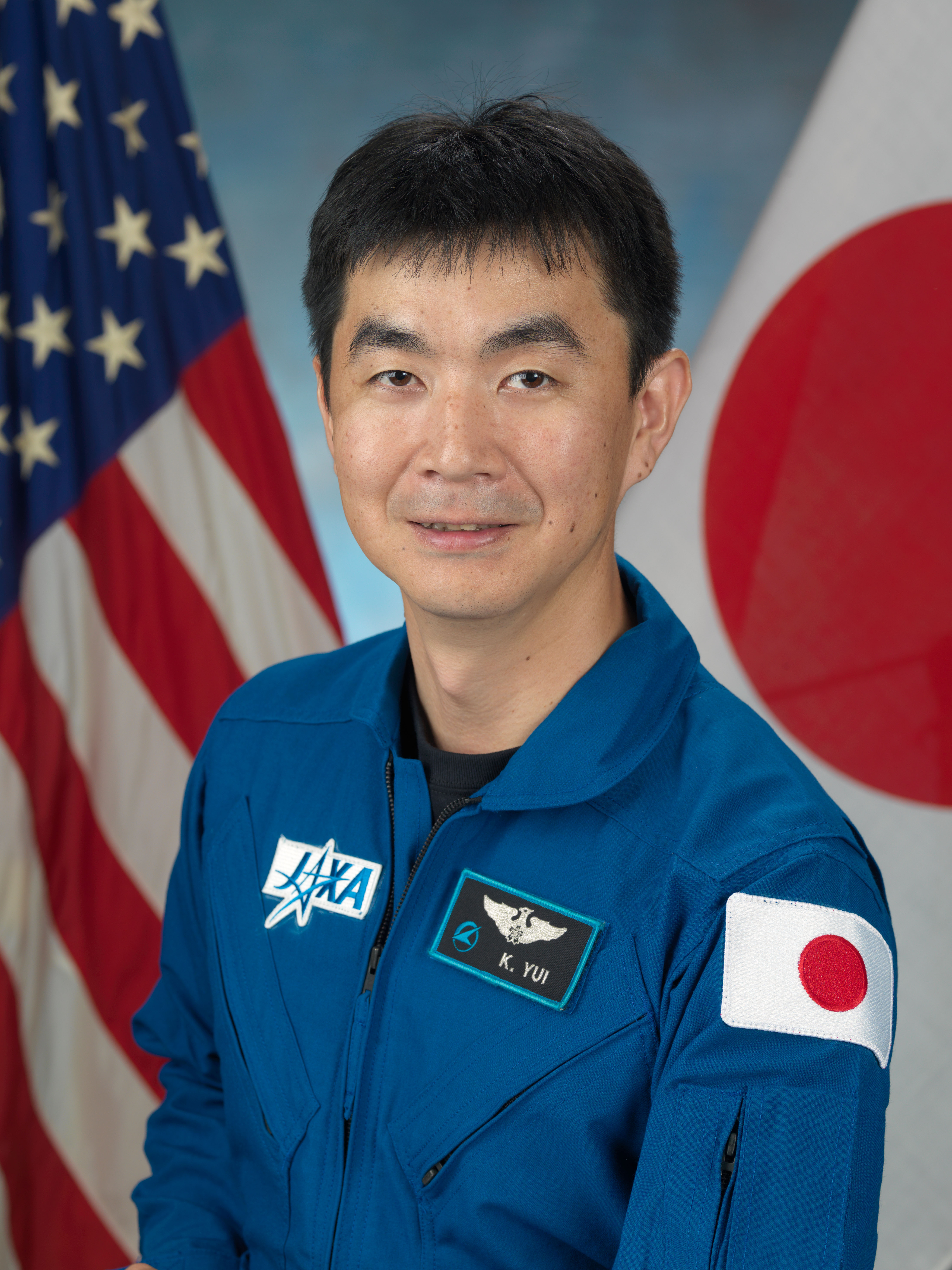 Astronaut Candidate Kimiya Yui's Official NASA Photo